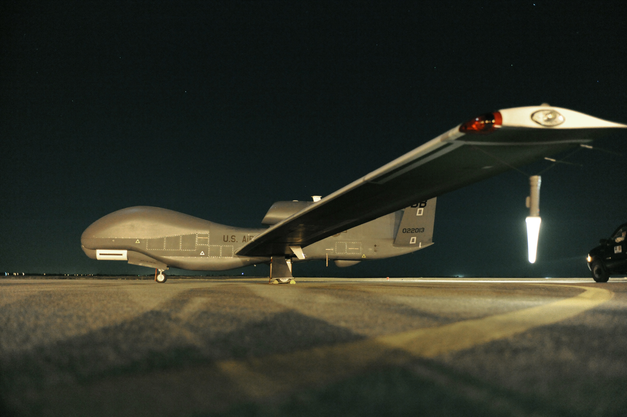 Pacific Air Forces is utilizing an RQ-4 Global Hawk from Andersen Air Force Base, Guam, sits on the Joint Base Pearl Harbor-Hickam runway in-between missions to assist disaster relief efforts in response to the Tōhoku earthquake.